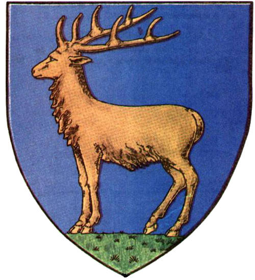 Coat of arms of Gorj County, Romania.